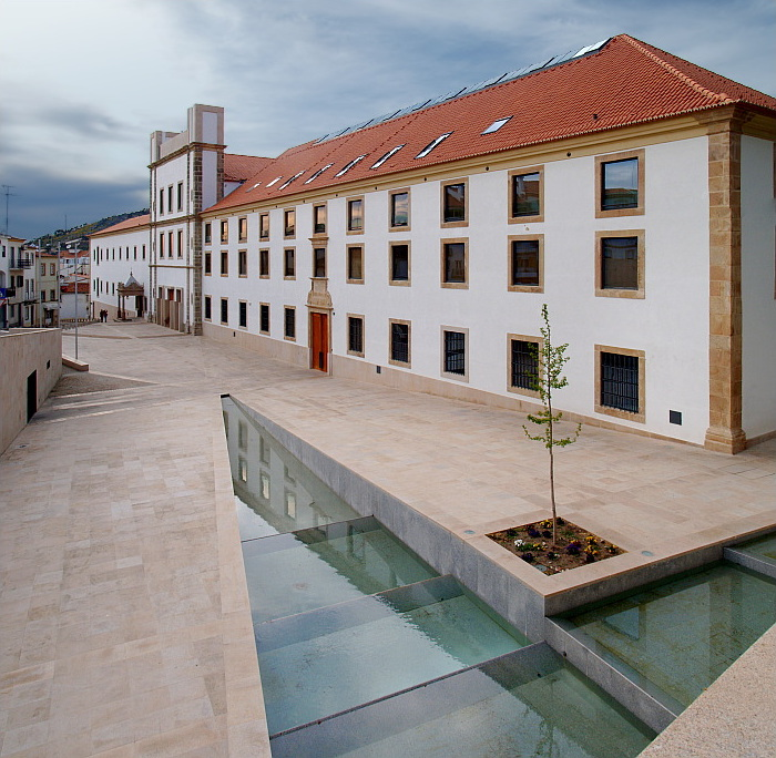 City Hall of Portalegre. Previously a Jesuit convent and college, turned into a weaving factory in the 18th century. Popularly known as Fábrica Real